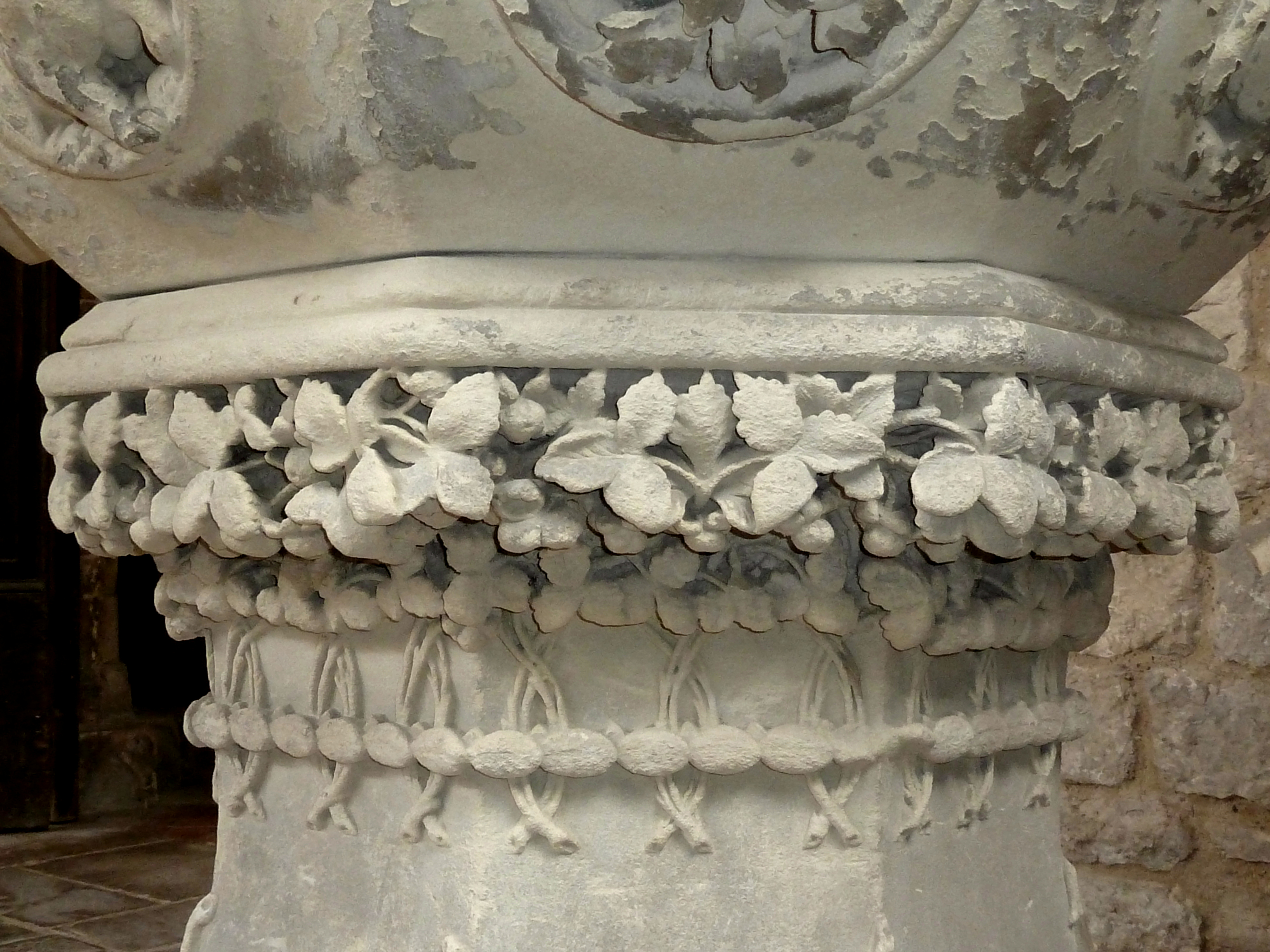 Caen stone font by Catherine Mawer at St Peter's Church, Barton-upon-Humber, Lincolnshire. It was created in 1859 to the outline design of architect Cuthbert Brodrick, who directed the restoration of the church in that year. Showing complex band of finely-undercut trilobed leaves, symbolising the Trinity. The font was paired with a Caen stone pedestal for the pulpit by the same sculptor; that pedestal is now missing, but it may be the one in St Mary's nearby.